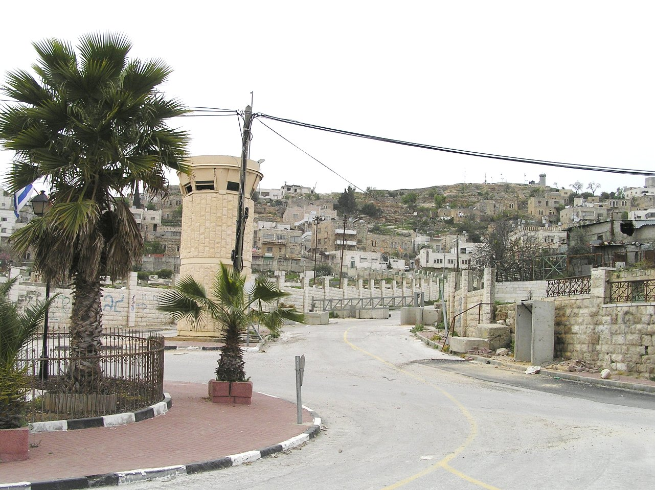 Hebron.